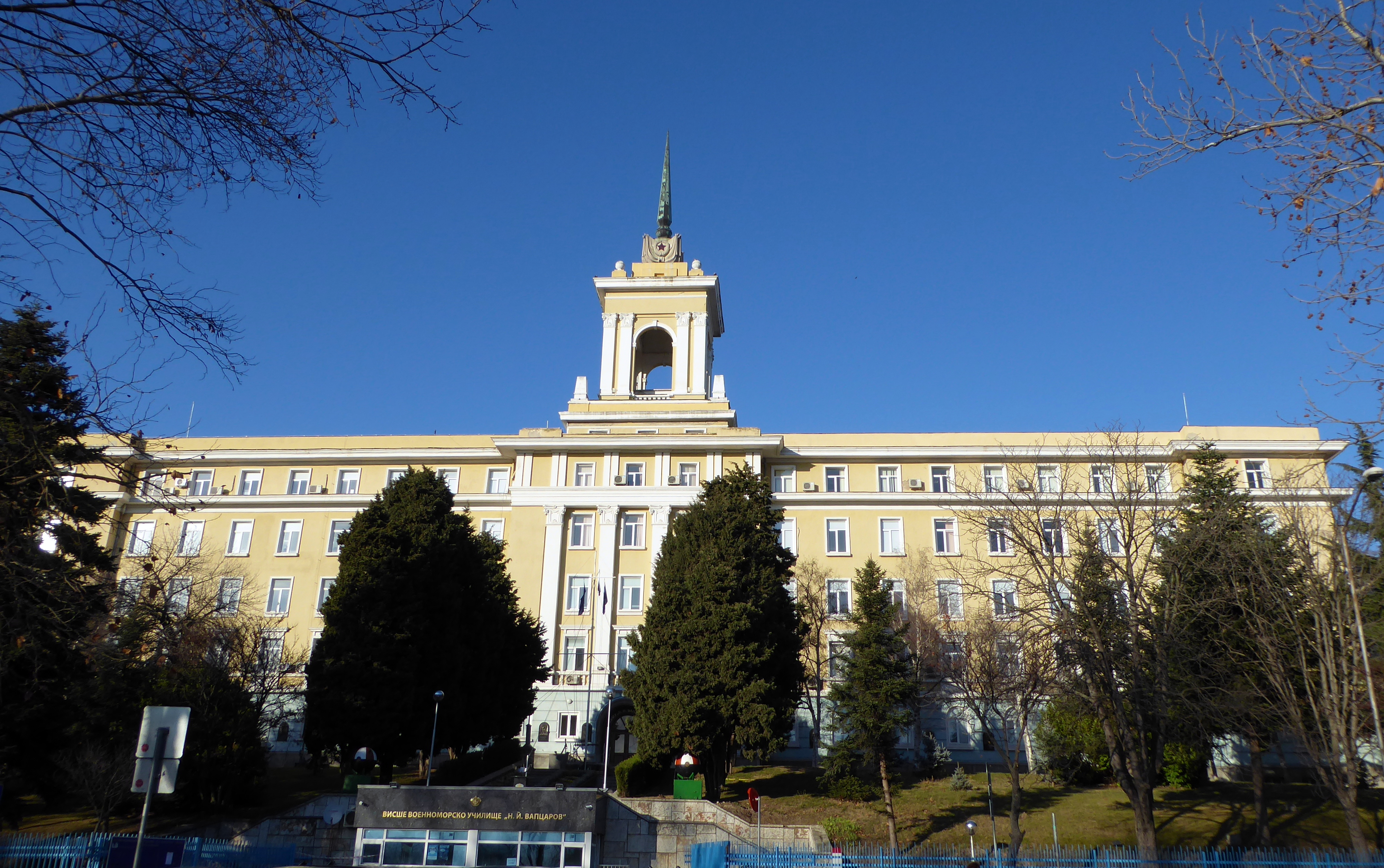 Naval Academy "Nikola Jonkov Vaptsarov" VVMU Varna.